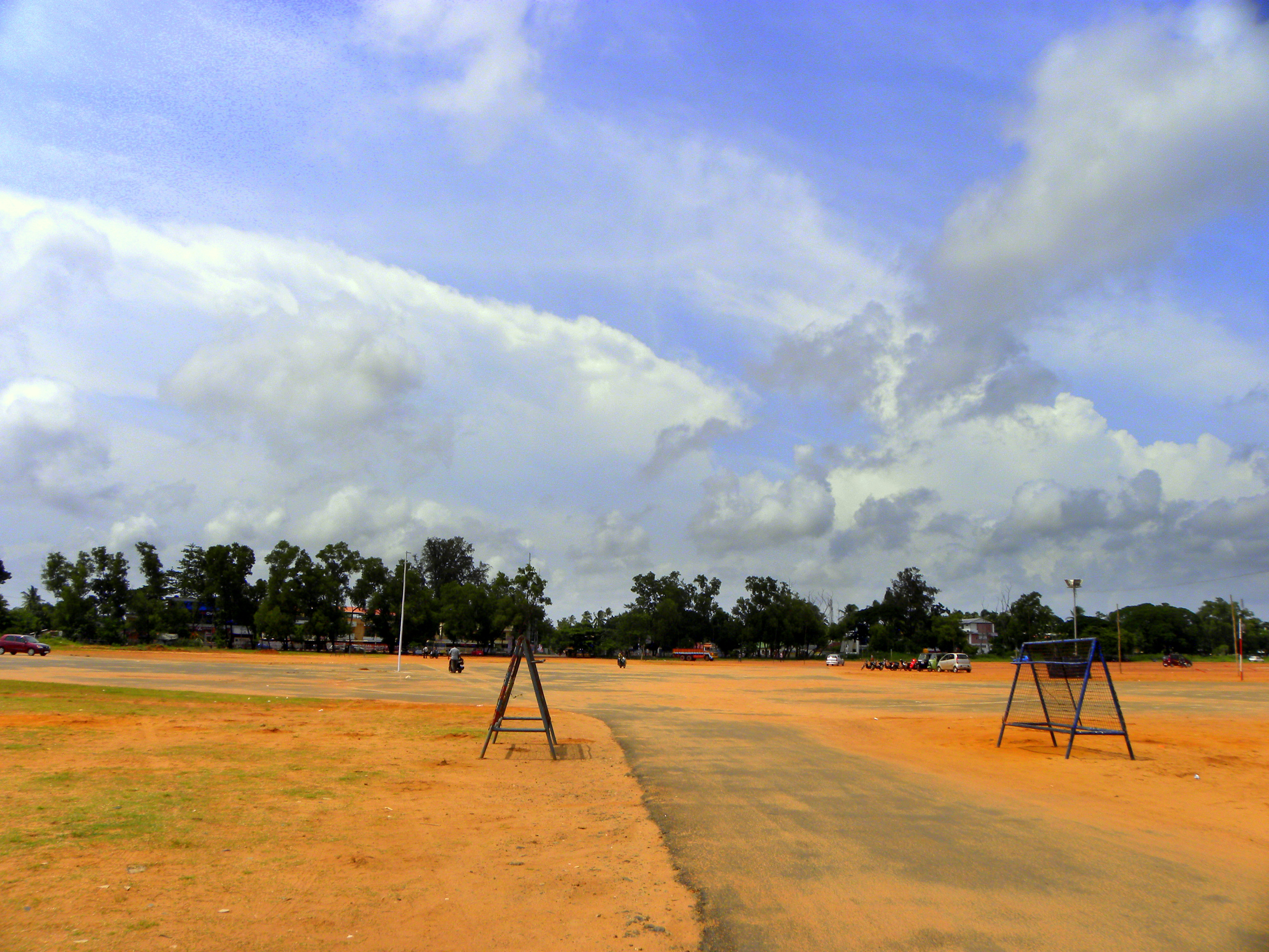 Asramam Aerodrome, Kollam - The first airport in the state of Kerala, now the largest open space available in any of the cities in Kerala